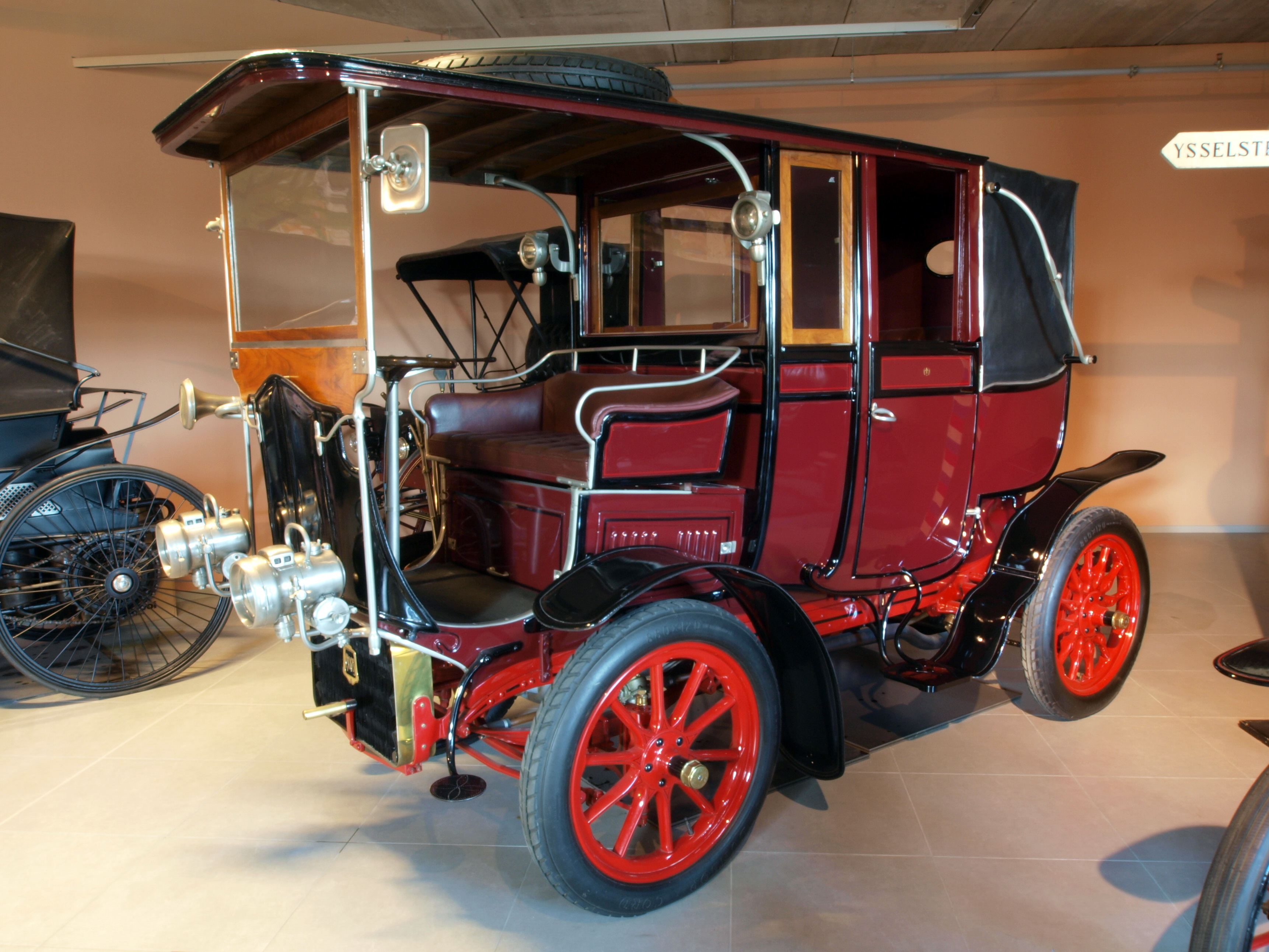 Mors 14/19-HP. Photographed at the Louwman museum, The Netherlands.